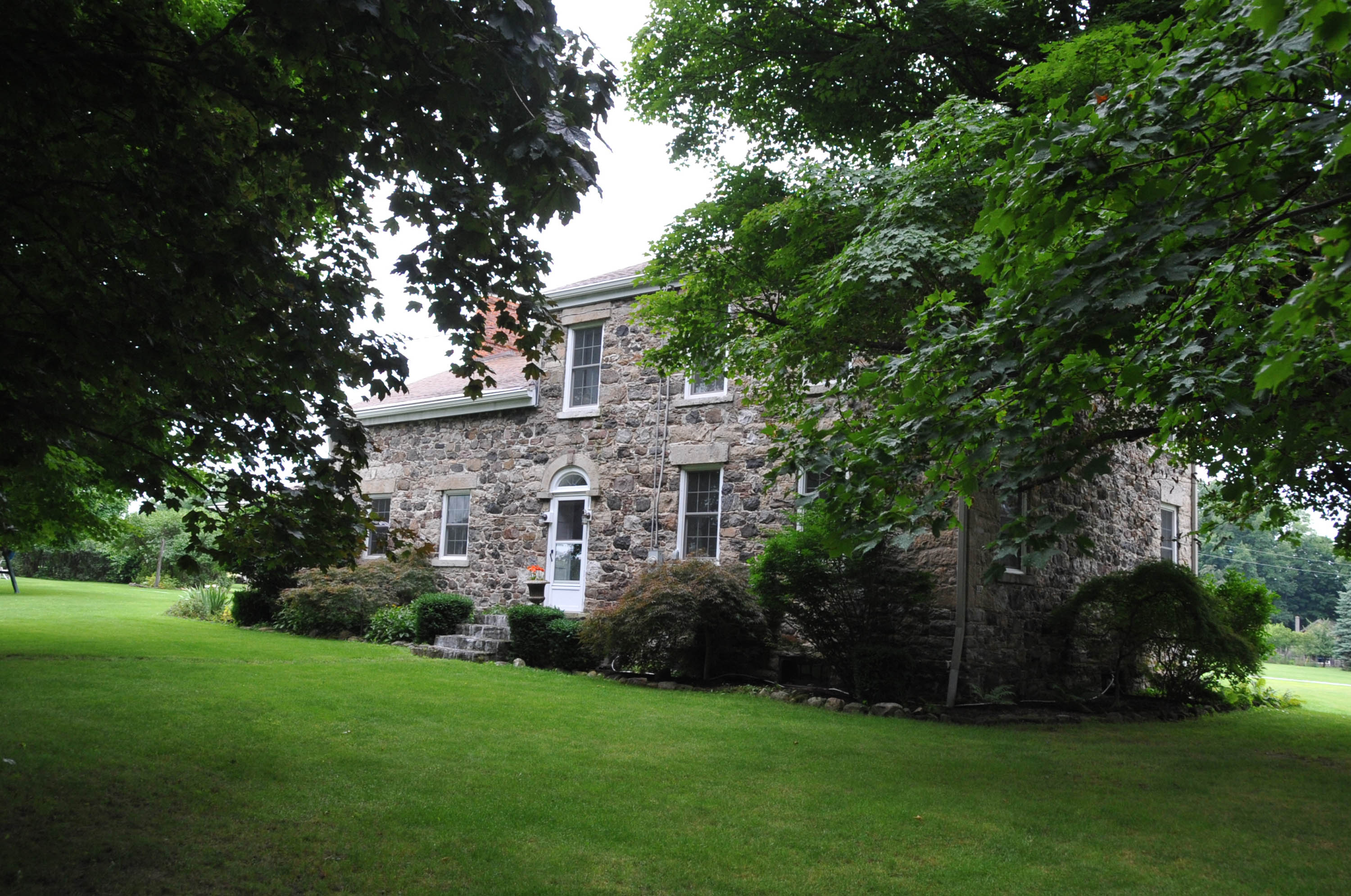 BUILT IN 1830 BY DONALD MANN WHO WAS PART OF THE SCOTTISH SETTLERS WHO BOUGHT LAND IN THIS AREA. HE WAS ALSO AN ITINERANT PREACHER